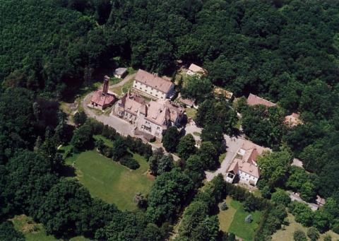 Diósjenő, castle, Hungary, aerial photography (Secession-style Swabian Mansion built during the 1900's.)